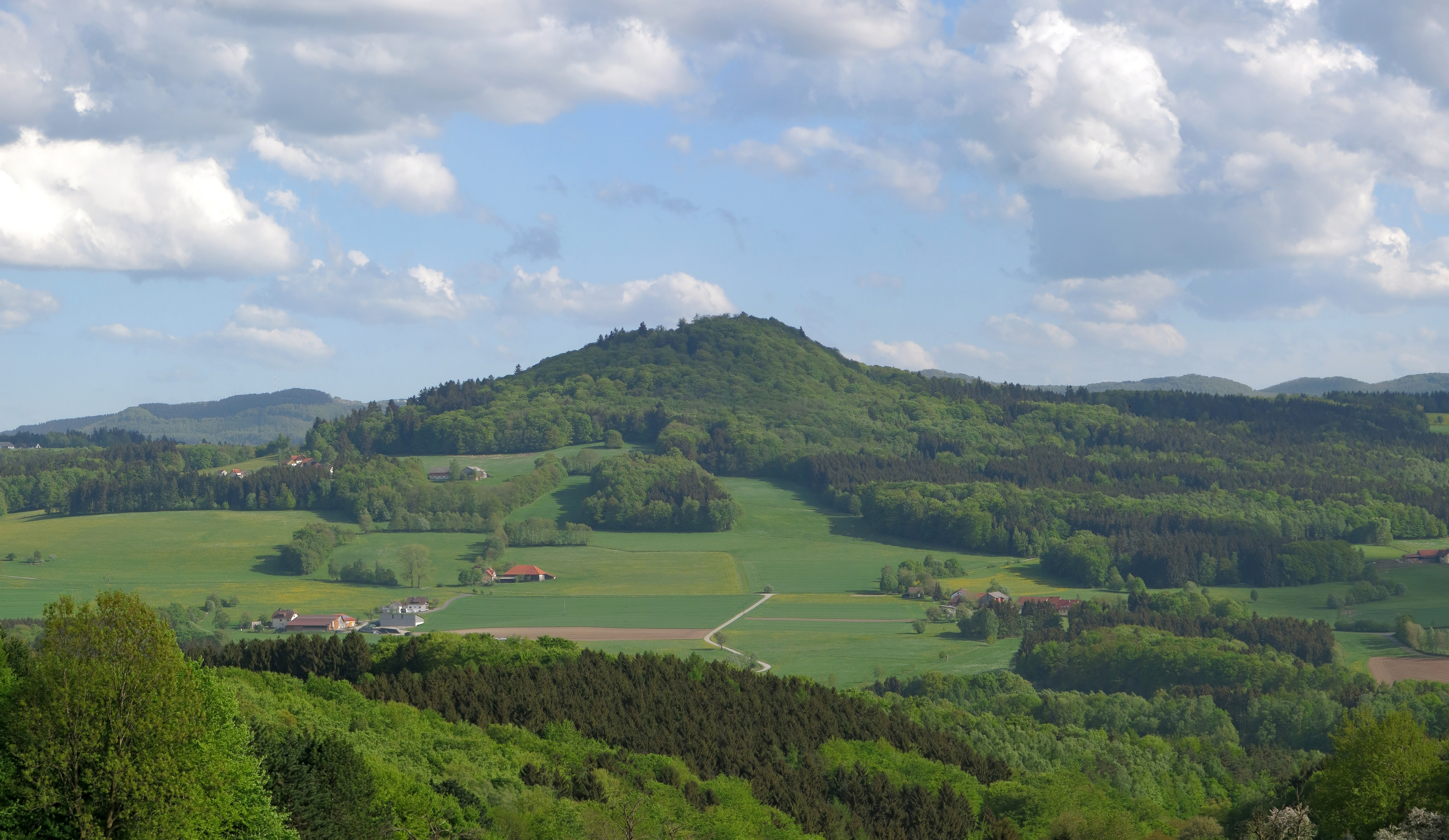 Ebersberg in the Rhön Mountains, seen from northwest